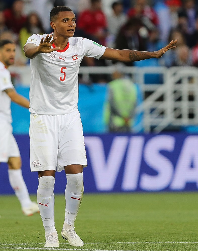 Manuel Akanji